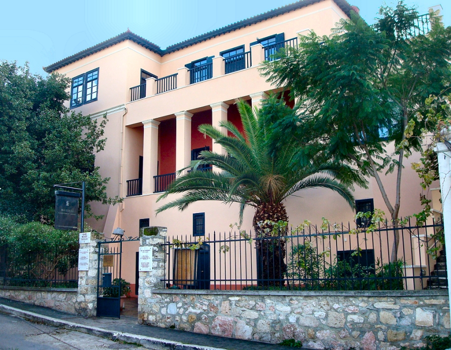 The Old University of Athens which houses the Athens University Museum.